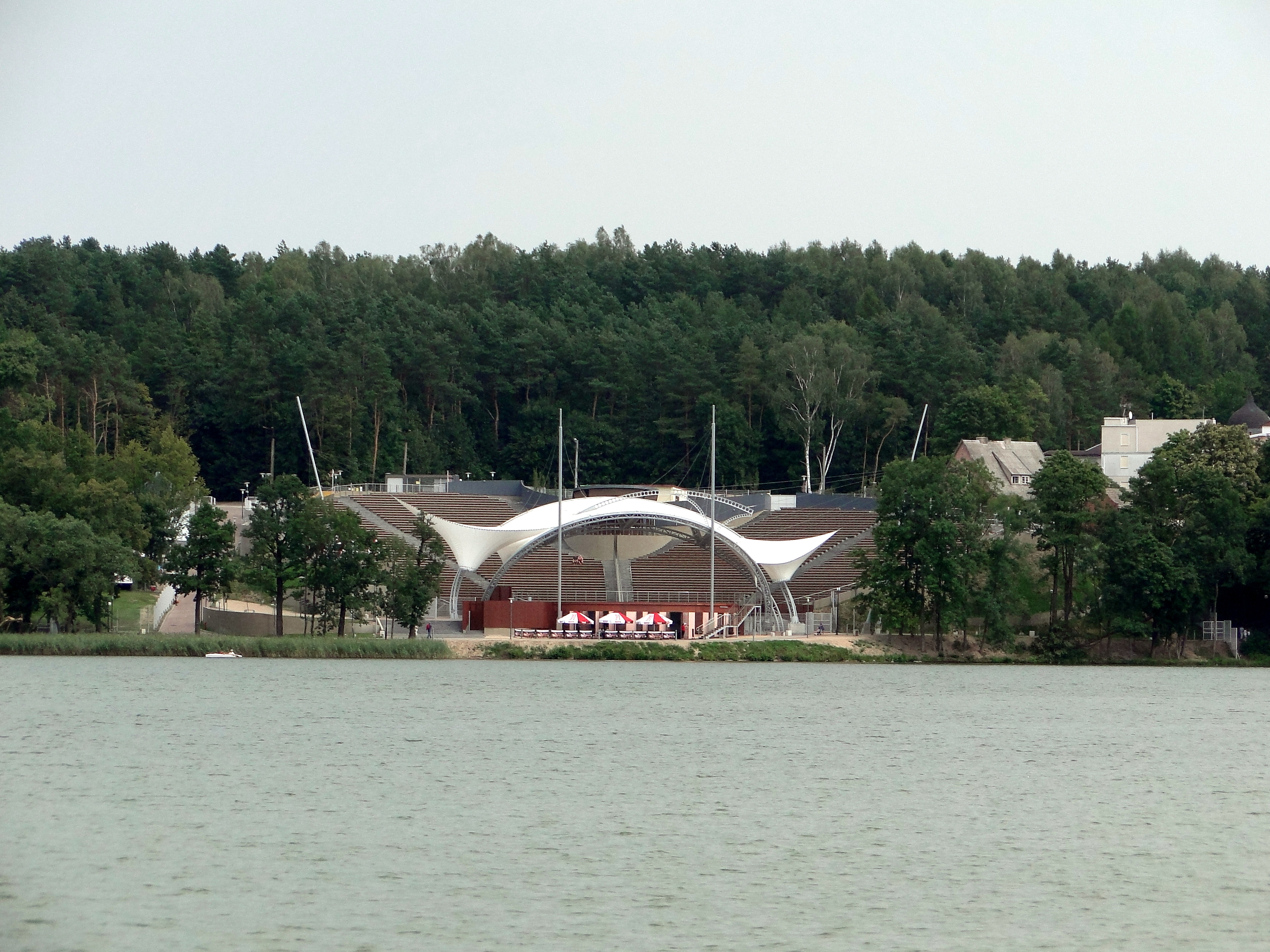 Amphitheate in Mrągowo seen from opposite shore of Czos Lake